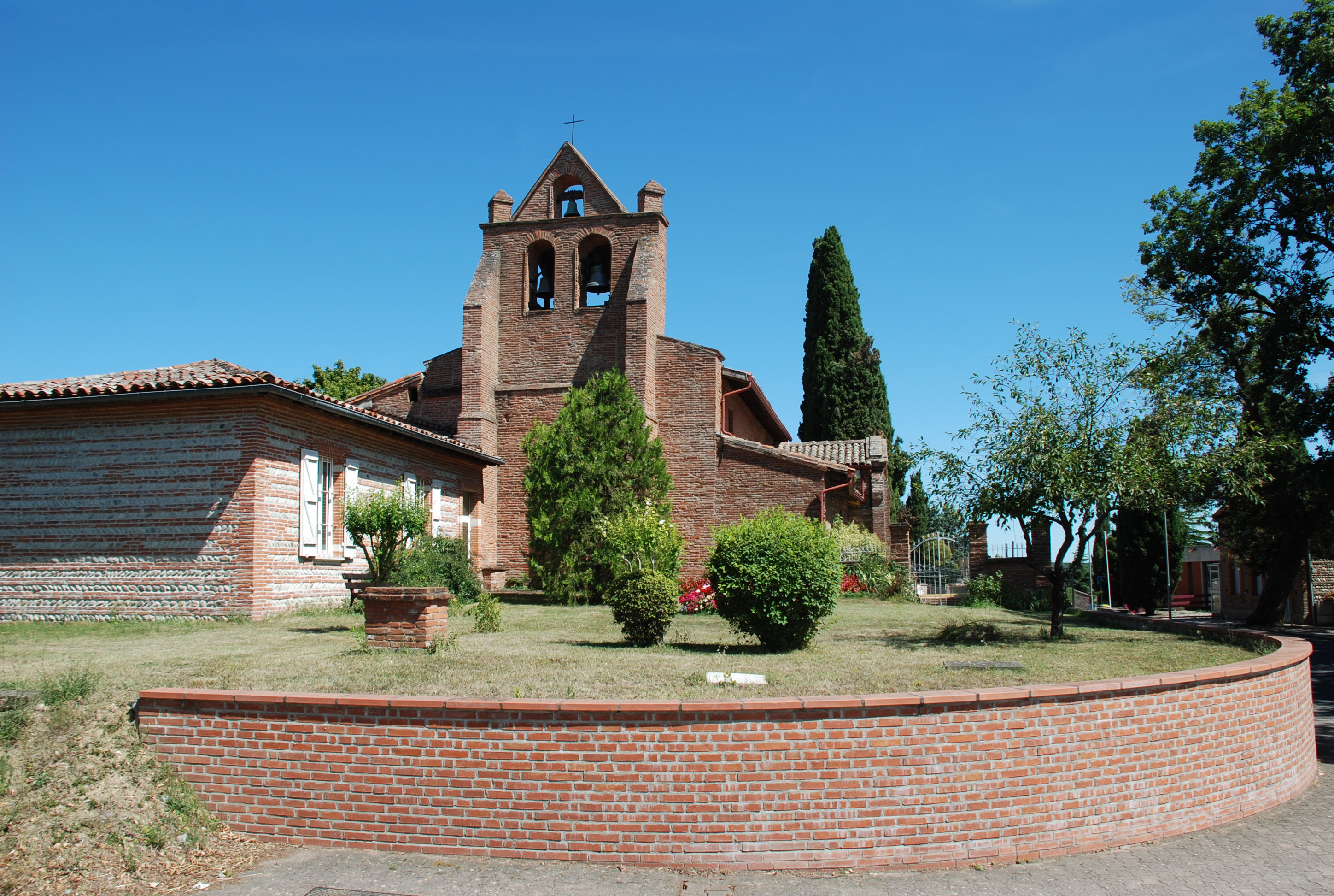 Saint Martin church of Vigoulet-Auzil (Haute-Garonne, France). Library of the village on the left.